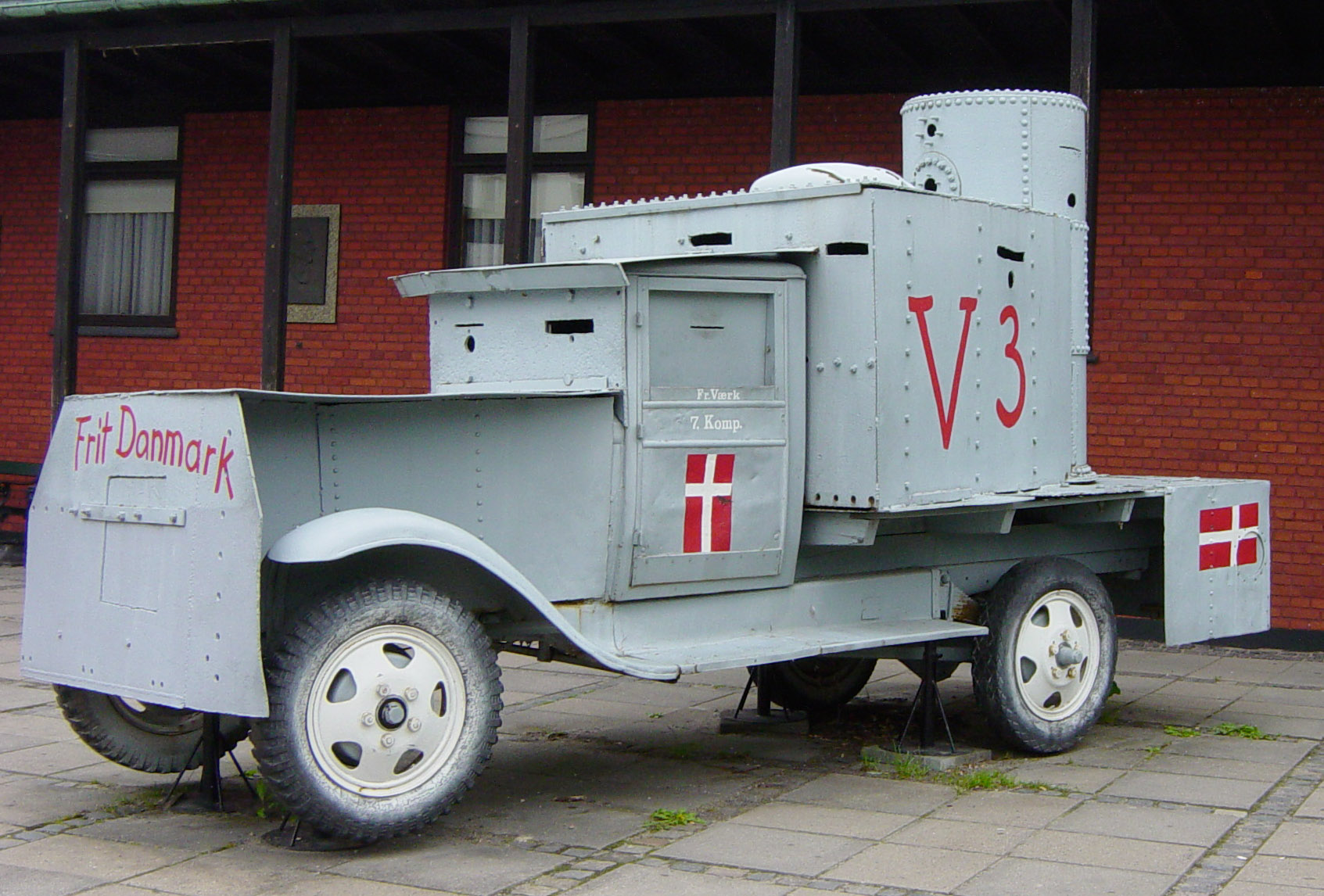 Danish resistance armoured car, info in Danish, English, and German at Image:DanishResistanceACInfo2796.jpg This armoured car was built by a resistance group at the railway factories at Frederiksværk, North Zealand, and used in action on May 5th, 1945 in the fight against nazi groups. Its most important task was a fight against a Danish nazi group which was entrenched in the plantation of Asserbo in North Zealand. The armed car is donated by the Frederiksværk Railway and is kept in repair by the Tuborg Foundation and is located at the Danish Resistance Museum.